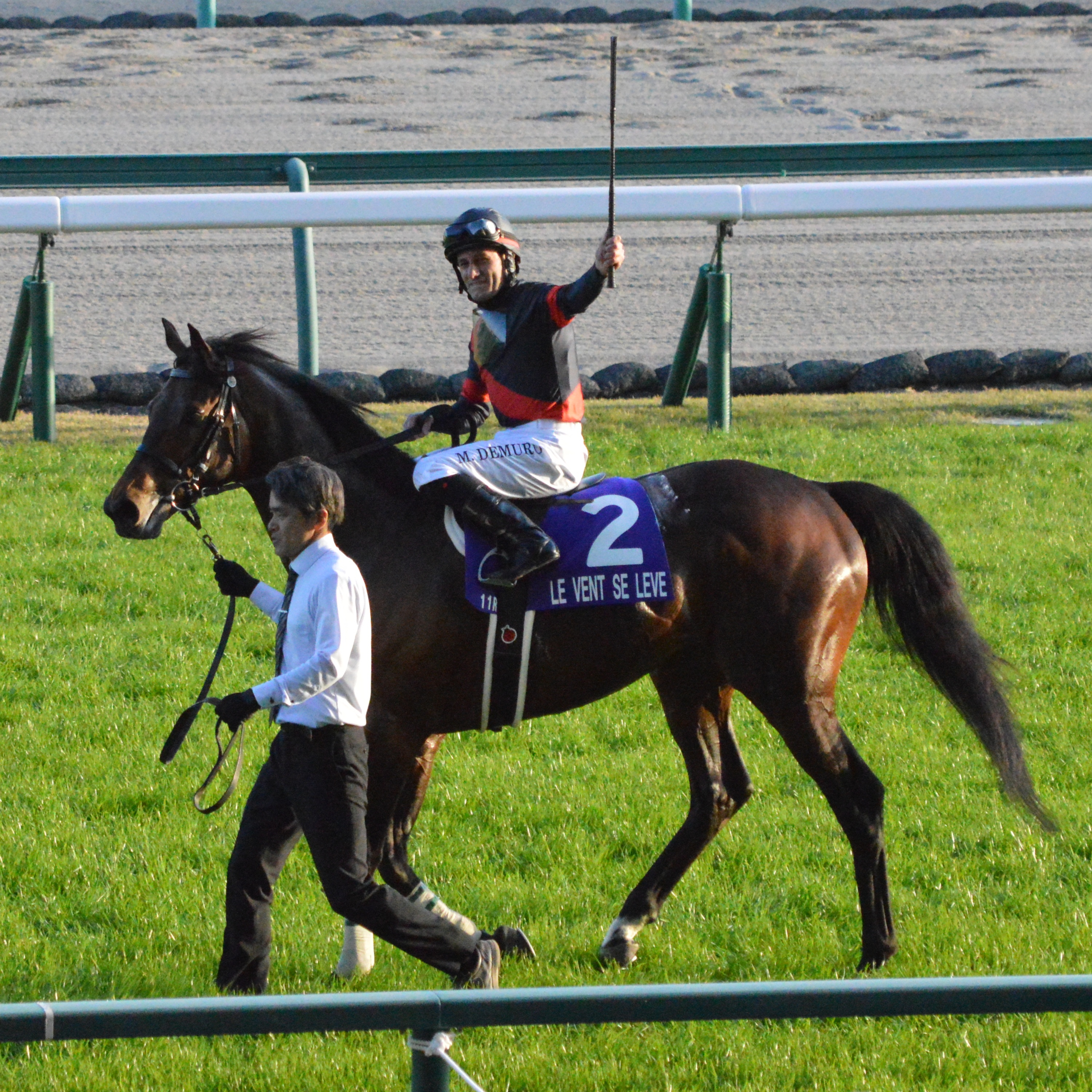 Japanese race horse Le Vent Se Leve at Chukyo racecourse. Chukyo (JPN) 02 Dec 2018Champions Cup (ex Japan Cup Dirt) (Grade 1) (3yo+) (Dirt) 1m1f Standard RankHorse NameOddsAgeWgtJockeyTrainer1stLe Vent Se Leve (JPN)9/10FC38-11Mirco DemuroKiyoshi Hagiwara2ndWester lund (JPN)31/1C38-11Yusuke FujiokaSyozo SasakiOthers are omitted. (15 horses entered in a race.)